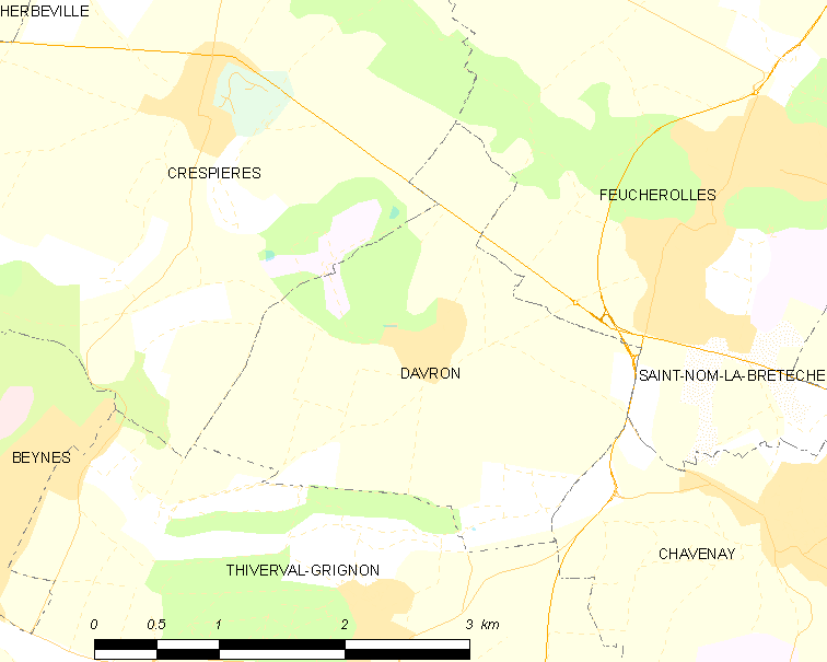 Map of French municipality Davron